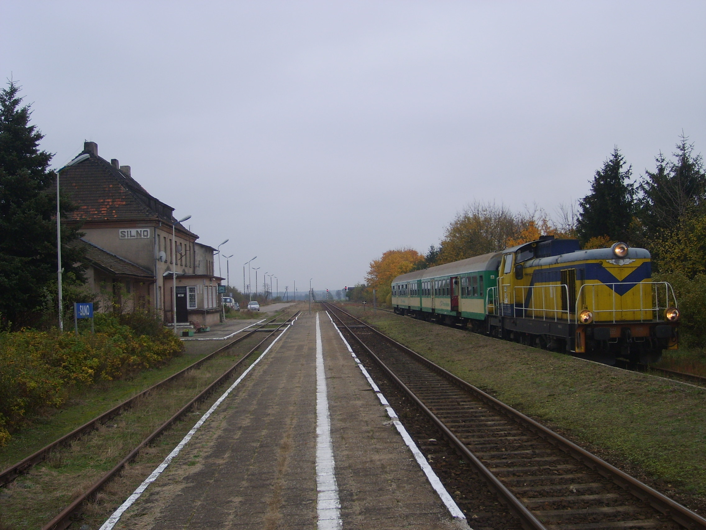 Tourist train in Silno in Poland, on railroad Działdowo – Chojnice.